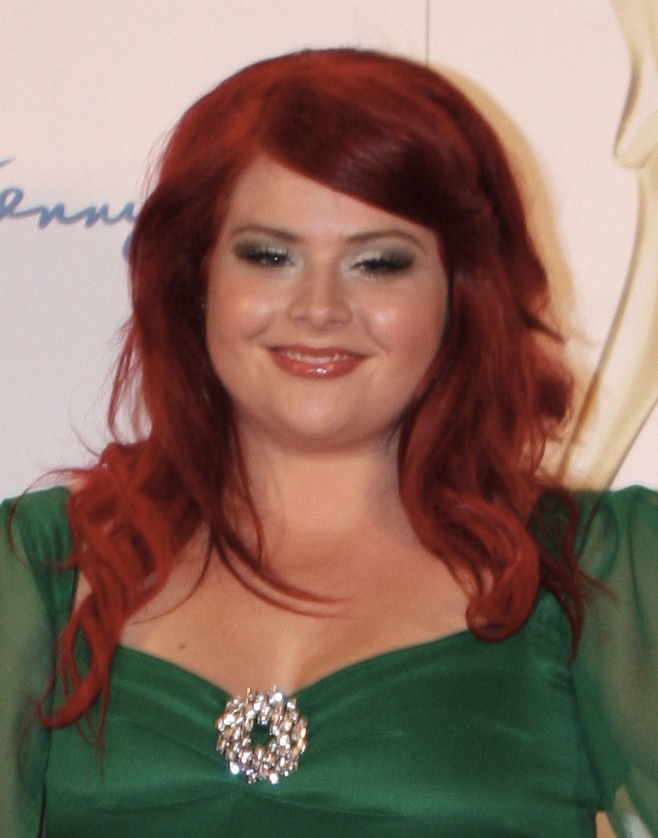 Australian actress Melissa Bergland at the 2011 Logie Awards held at Crown Casino and Entertainment Complex, Melbourne.